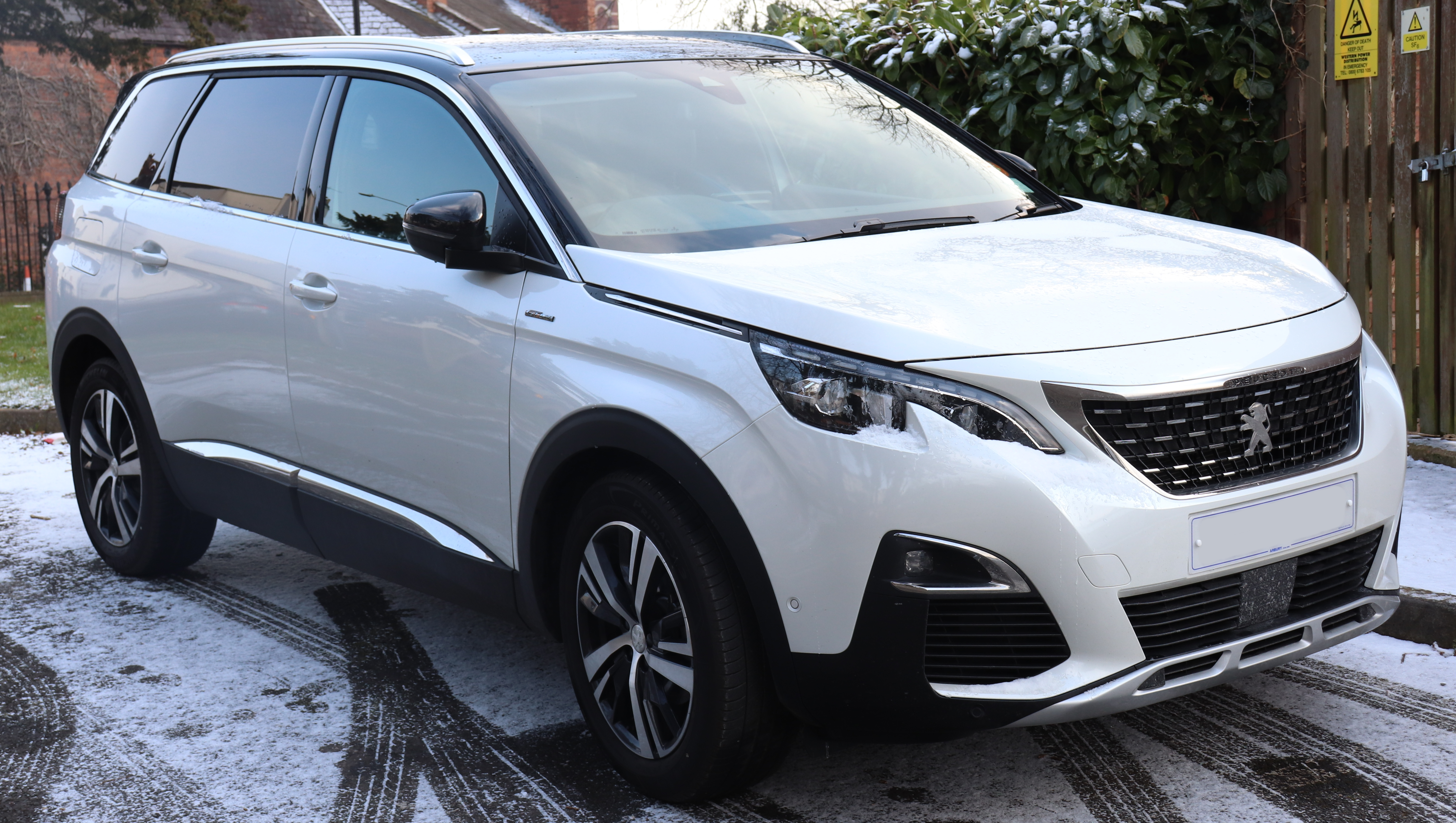 2017 Peugeot 5008 GT Line 1.2 Front Taken in Leamington Spa